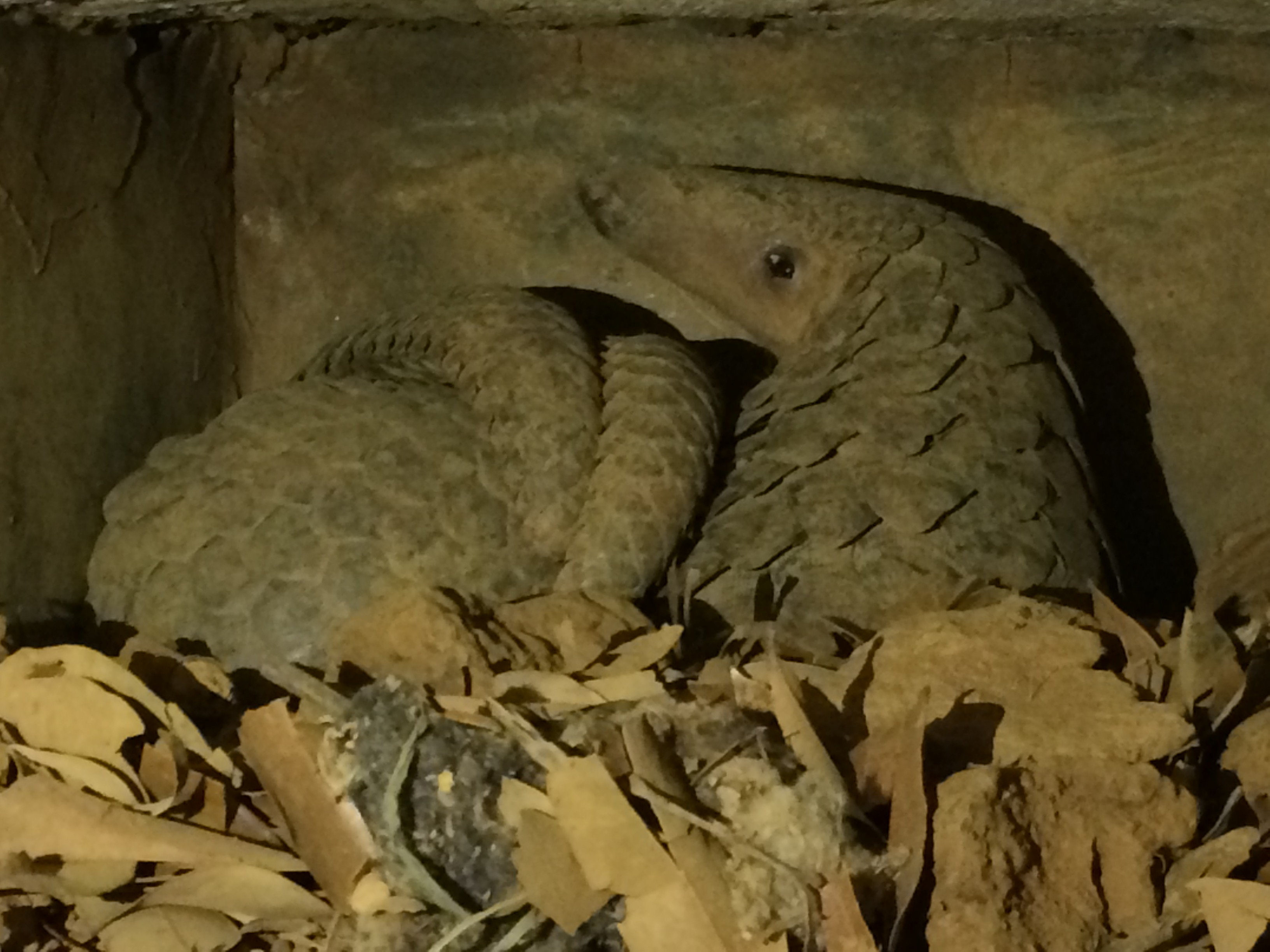 This image is related to a U.S. GAO report: Combating Wildlife Trafficking: Agencies Are Taking Action to Reduce Demand but Could Improve Collaboration in Southeast Asia